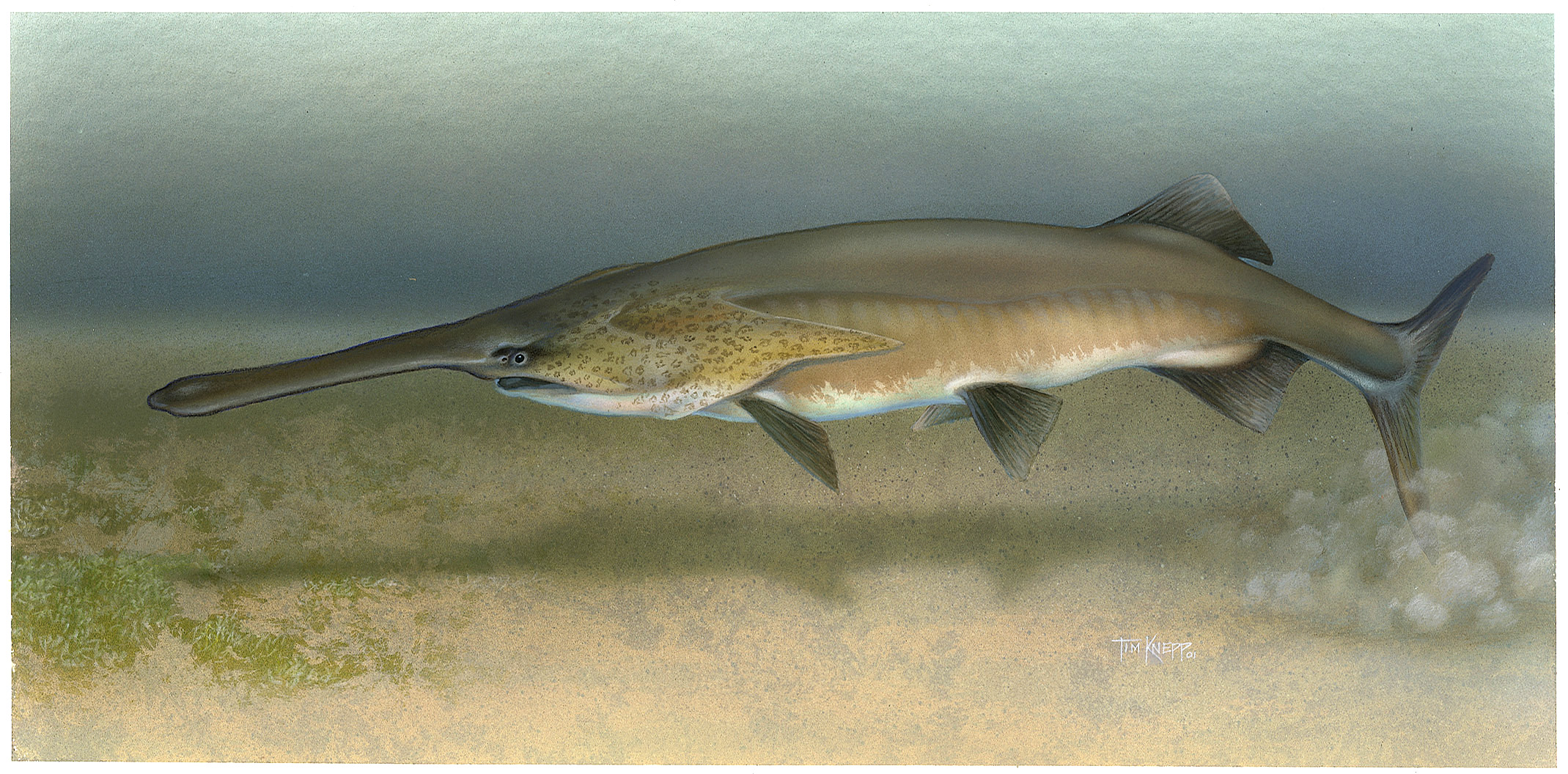 Image of American paddlefish (Polyodon spathula)